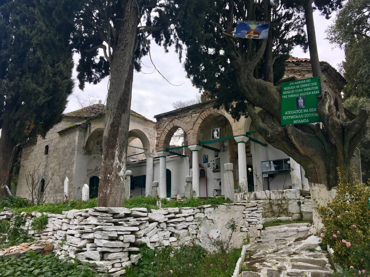 The Durbalı Tekke, close to Farsala, Thessaly.